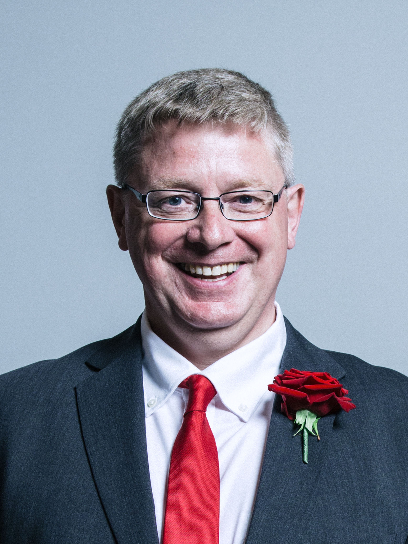 Official portrait of Martin Whitfield